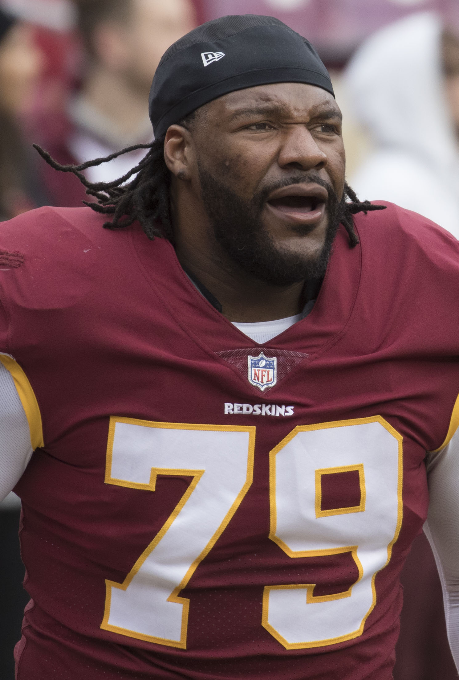 Cardinals at Redskins 12/17/17